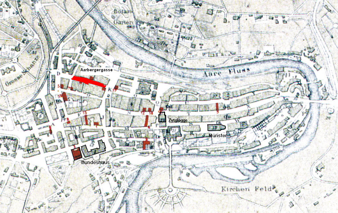 City plan of Bern, 1882. Scanned from BERN: Eine Stadt vor 100 Jahren, Bilder und Berichte; Peter Lauenberger, Emil Erne; München 1997; p. 7. Originally from Bern und seine Umgebungen, C.H. Mann, 1882 in the Alpines Museum of Bern. Due to the age of the image, it must be assumed that the author has been dead for more than 70 years. Copyright protection has therefore lapsed under Swiss copyright law (Art. 29 par. 3 URG).